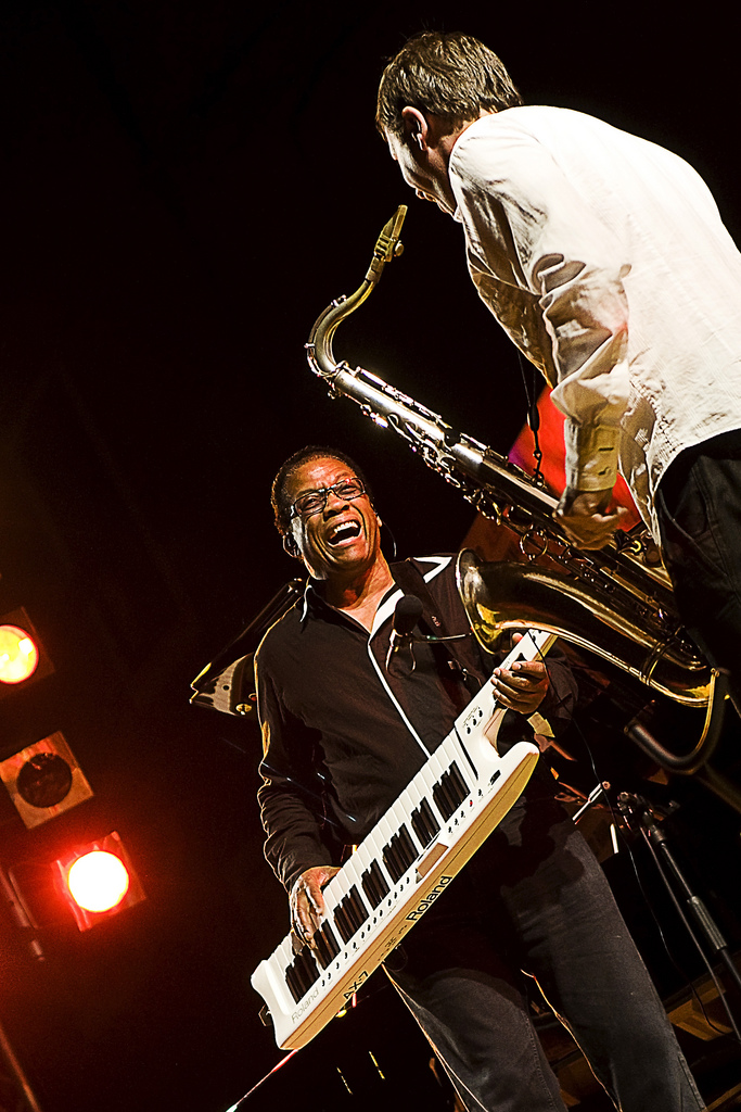 Herbie Hancock live in concert playing the keytar.